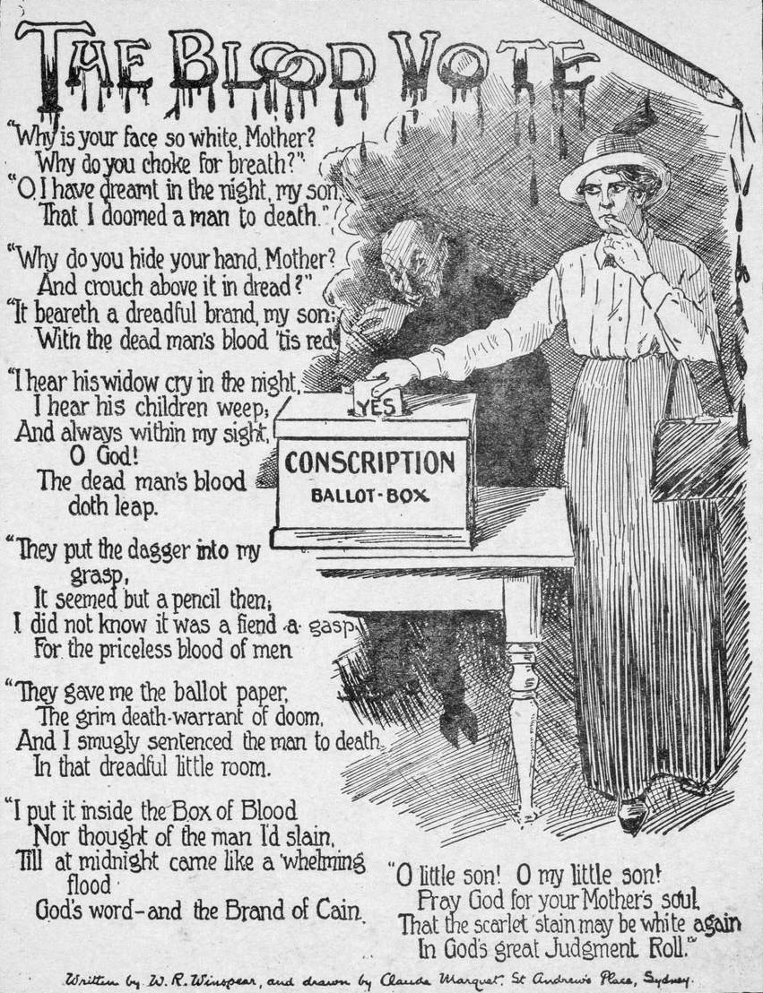 The Blood Vote - Anti-conscription handbill poem issued during anti-conscription campaign, 1917. Purportedly written by William Robert Winspear. Note: Leaflet with a verse by W. R. Winspear and a drawing by Claude Marquet, features an image a deeply worried woman casting a 'Yes' vote while Billy Hughes, Australia's labor prime minister and supporter of conscription, looks on gleefully. It was printed by Fraser & Jenkinson in Melbourne, 1917 and authorised by J. Curtin, Secretary for the 'National Executive'. 'The Blood Vote' was widely-published in papers such as The Australian Worker, The Westralian Worker and The Catholic Press. It was also posted directly into letterboxes.